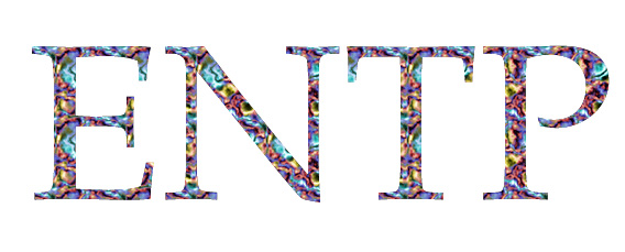 fancy logo/writing for use in MBTI articles